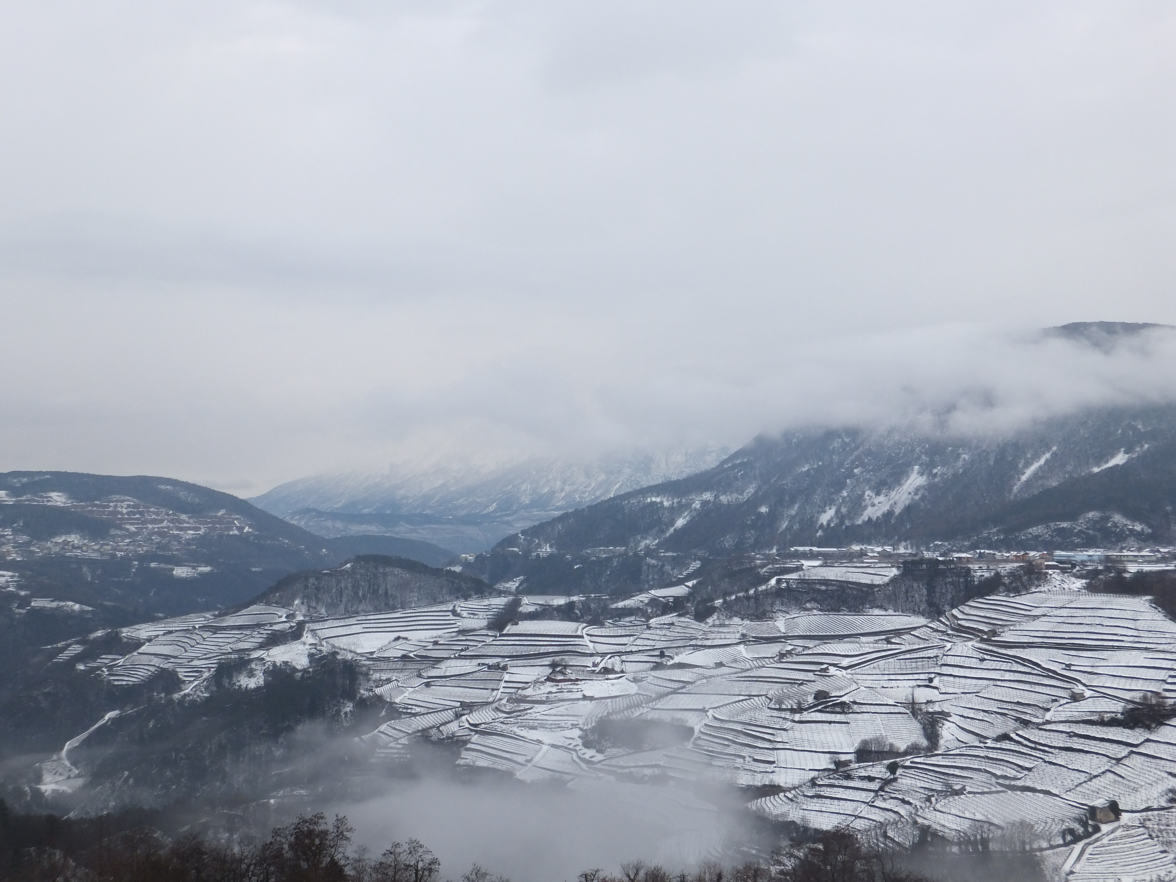 The valley of Cembra seen from Sevignano, Segonzano, in winter